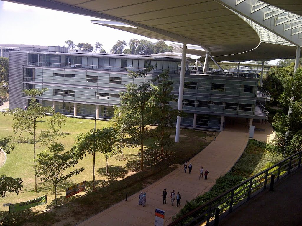 Universiti Teknologi Petronas